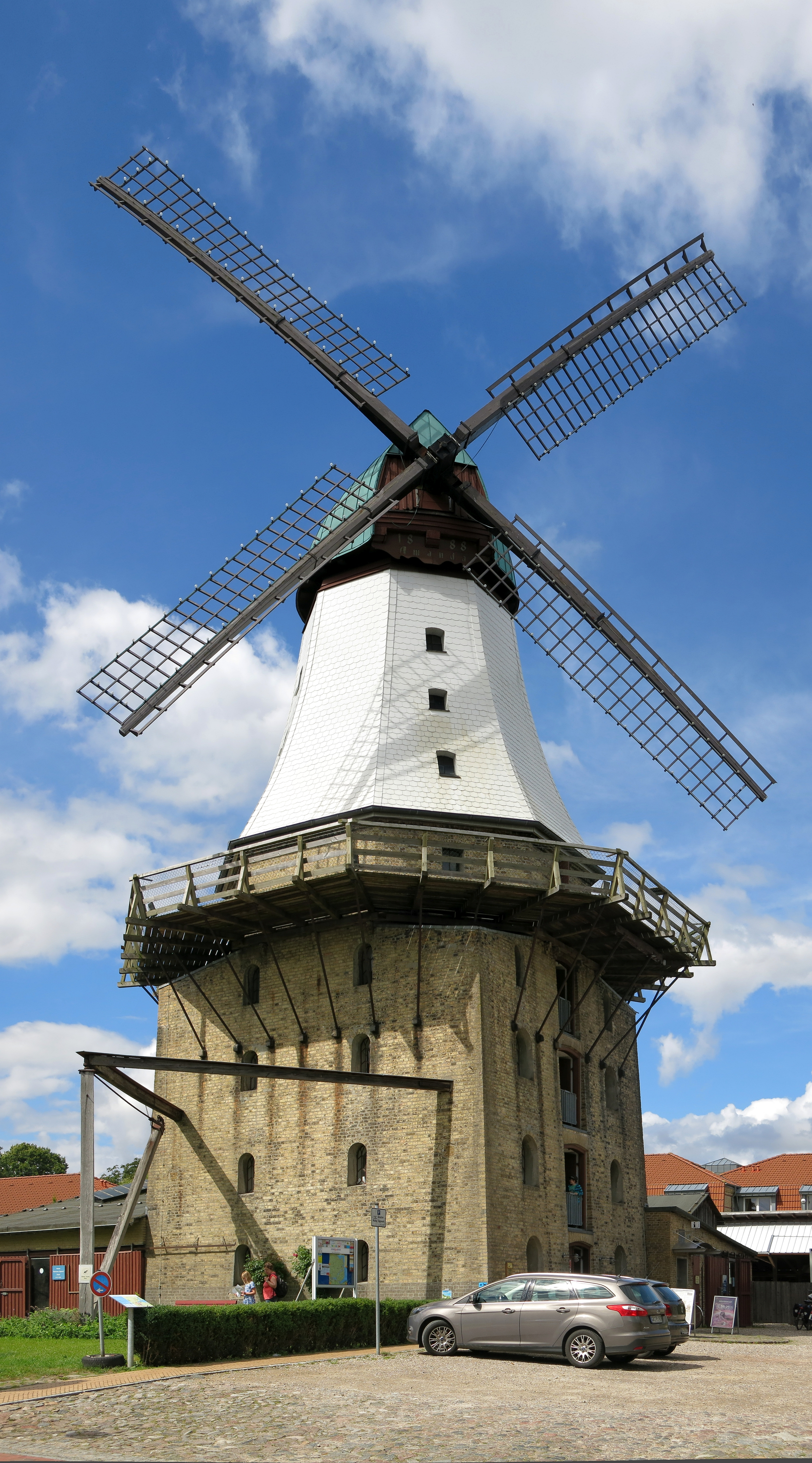 Windmill "Amanda" in Kappeln